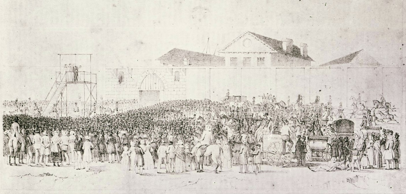 " Woolloomooloo Gaol [today known as Darlinghurst gaol ], Execution of John Knatchbull."